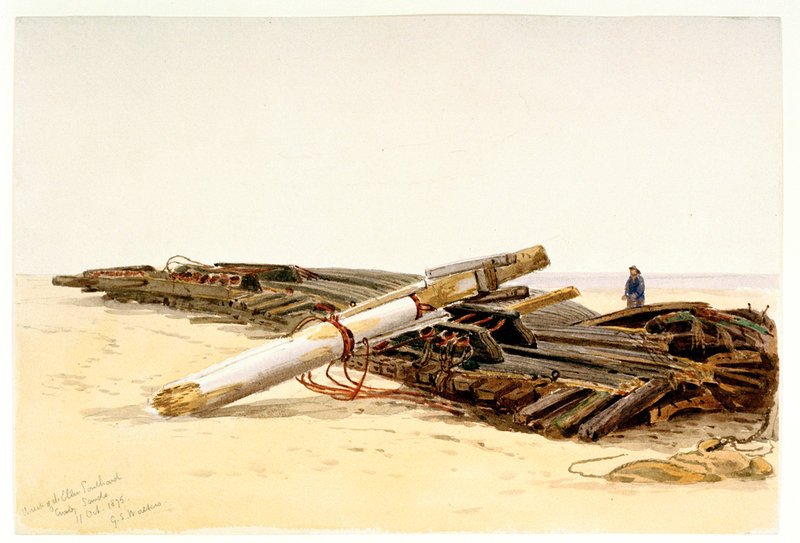 Wreck of the 'Ellen Southard' lying on Crosby Sands, 11 October 1875